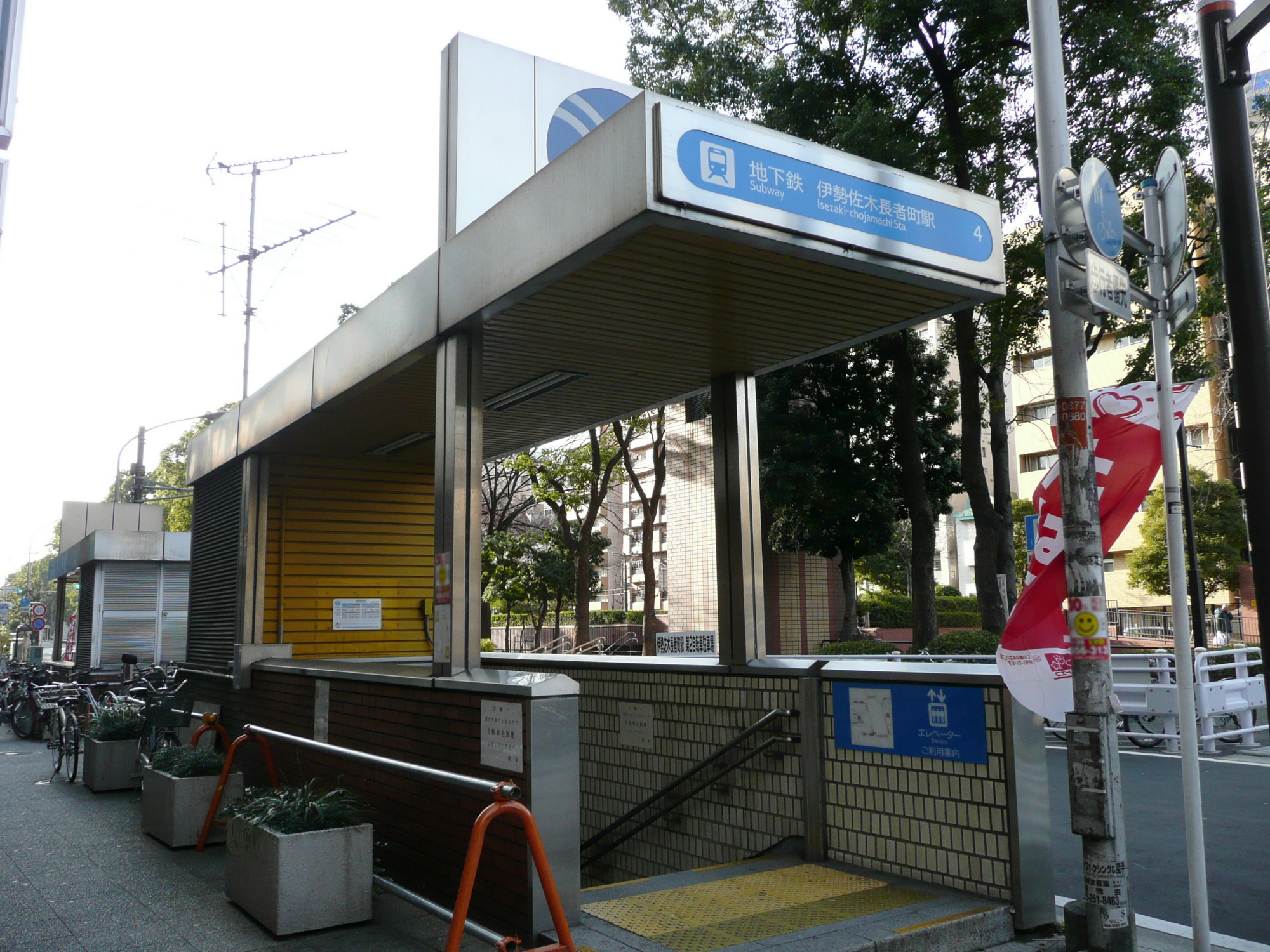 Transportation Bureau, City of Yokohama,Isezaki-choujamachi Station no.4 entrance. /横浜市営地下鉄ブルーライン4番出入口